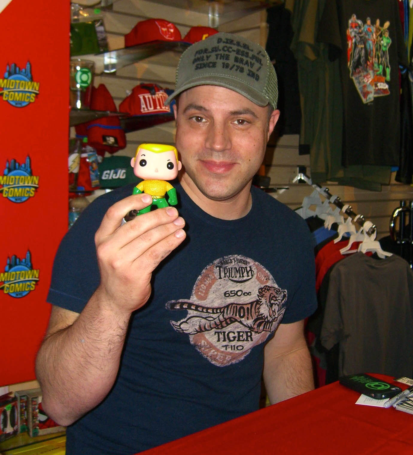 Comic book writer Geoff Johns at a May 11, 2012 signing at Midtown Comics Downtown in Lower Manhattan for Justice League Vol. 1: Origin, the hardcover collection of the first six-issue story arc of Justice League volume 2, the monthly series whose debut in September 2011 initiated The New 52, the company-wide relaunch of all of DC Comics' superhero titles. In the photo, Johns, who was also the writer at the time of the relaunched Aquaman series, is signing an Aquaman POP! vinyl toy that he and artist Jim Lee, who was also at the signing, have just autographed. This photo was created by Luigi Novi. It is not in the public domain, and use of this file outside of the licensing terms is a copyright violation.